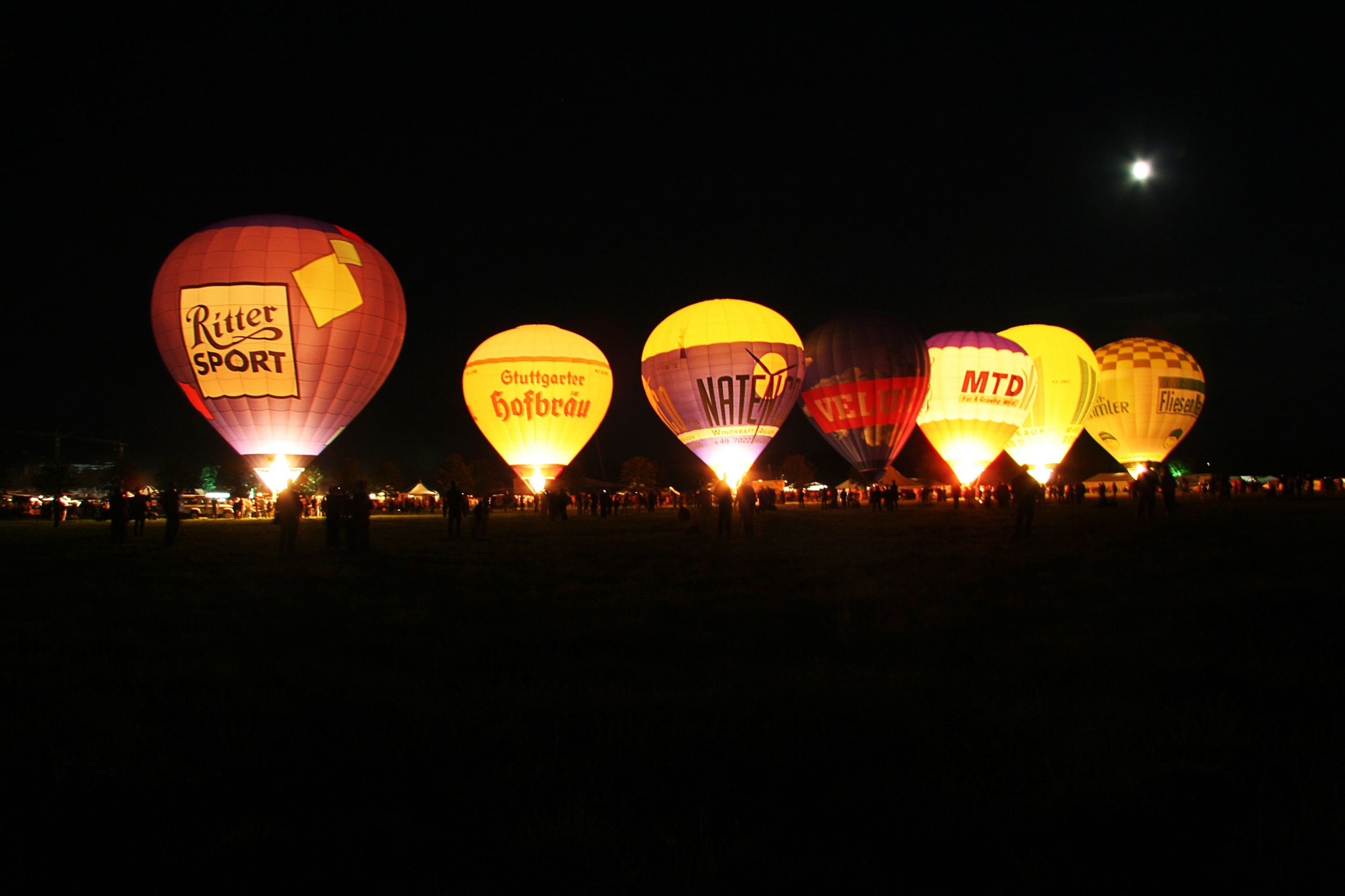 Hot-air baloons at night